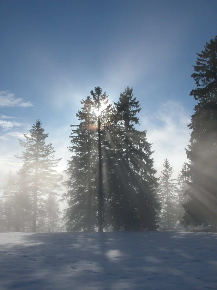 Wintertime in Bavaria